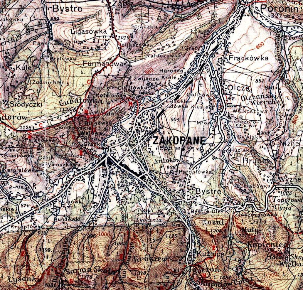 Map of Zakopane in scale 1:100,000 (fragment). See also full version of map